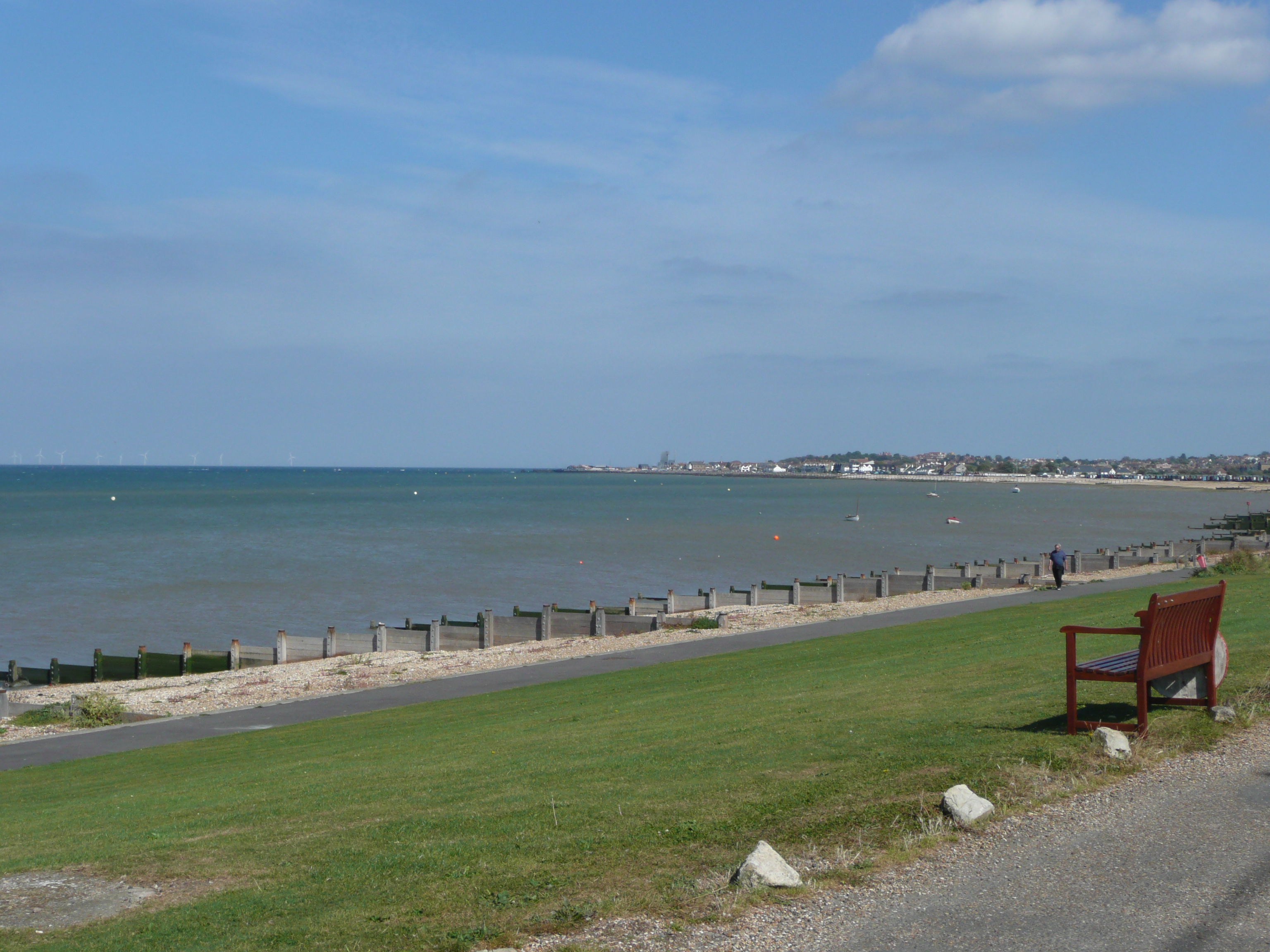 View of Whitstable harbour and town from Seasalter Beach